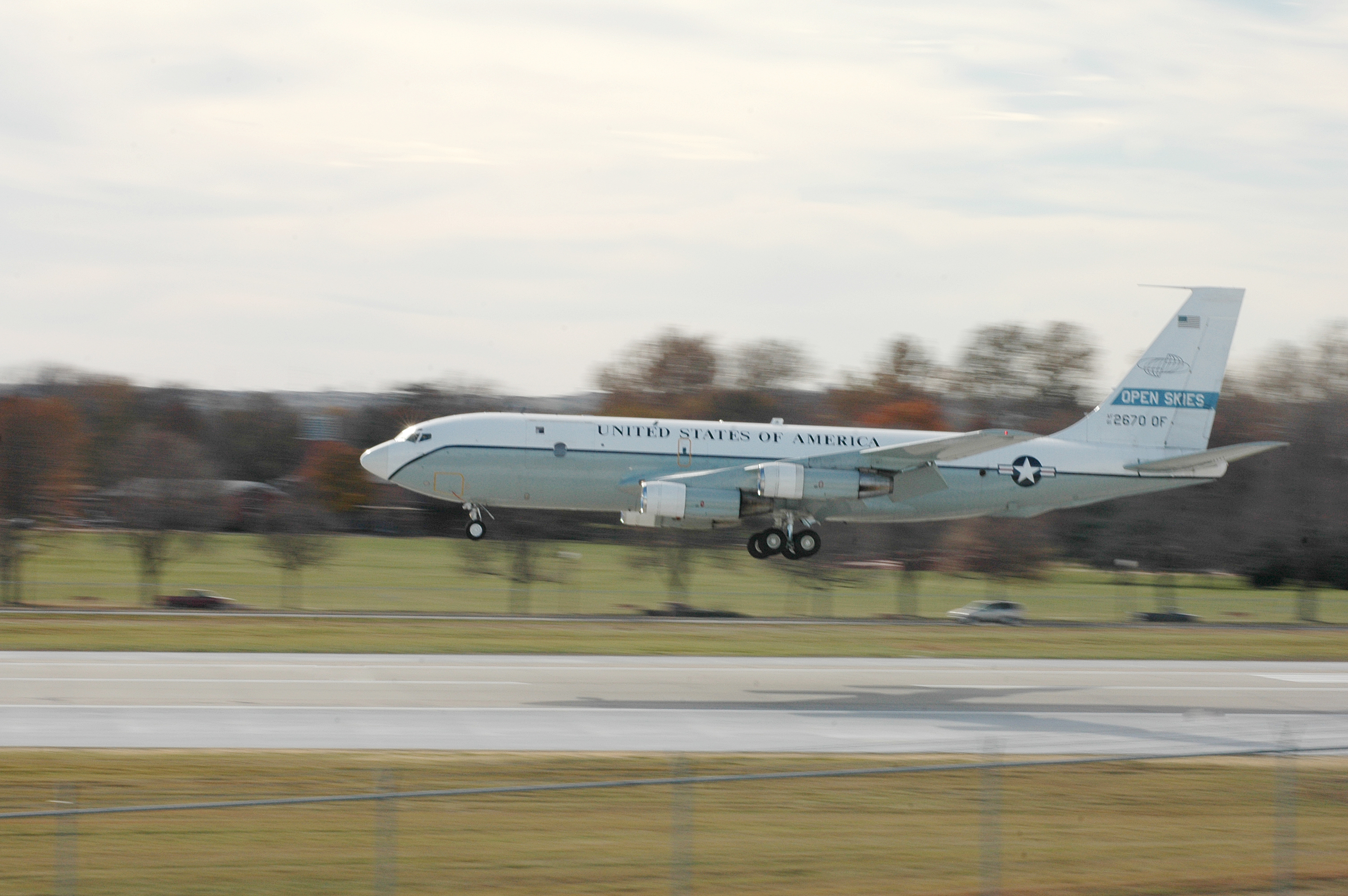 US Air Force OC-135 OPEN SKIES aircraft landing at Offutt AFB, Nebraska.